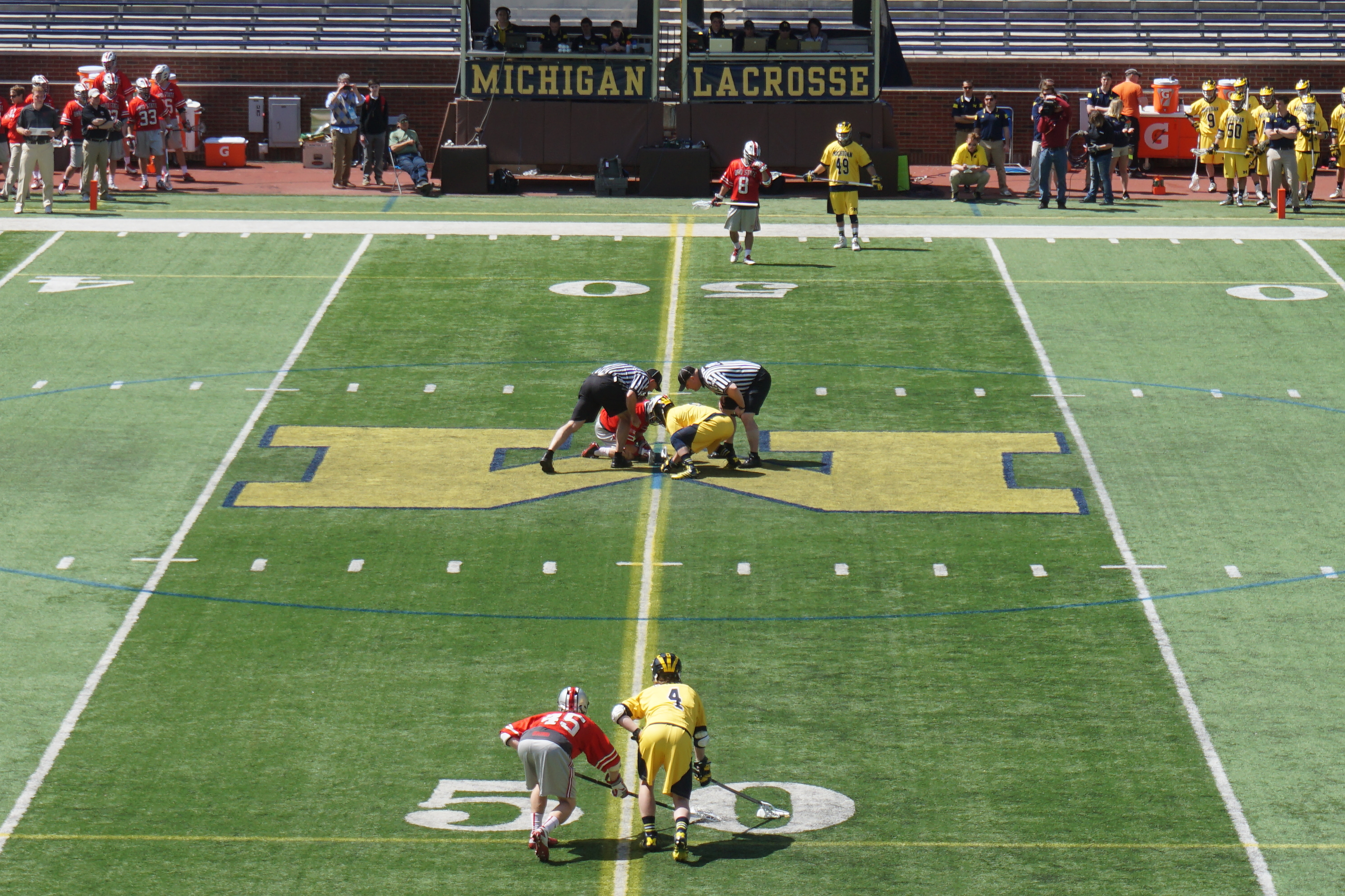 In-game action during the Ohio State Buckeyes vs. Michigan Wolverines men's lacrosse game at Michigan Stadium in Ann Arbor, Michigan (United States). Ohio State won 13–8.